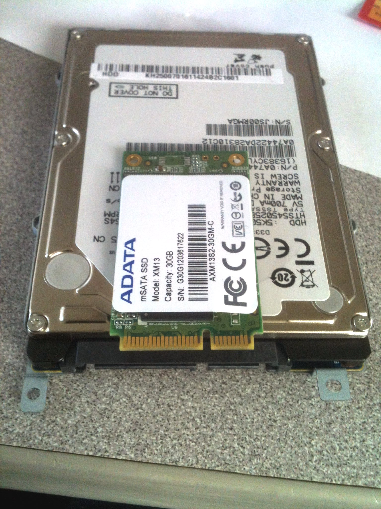 ADATA mSATA SSD XM13 on top of a Hitachi 2.5 inch SATA HDD.